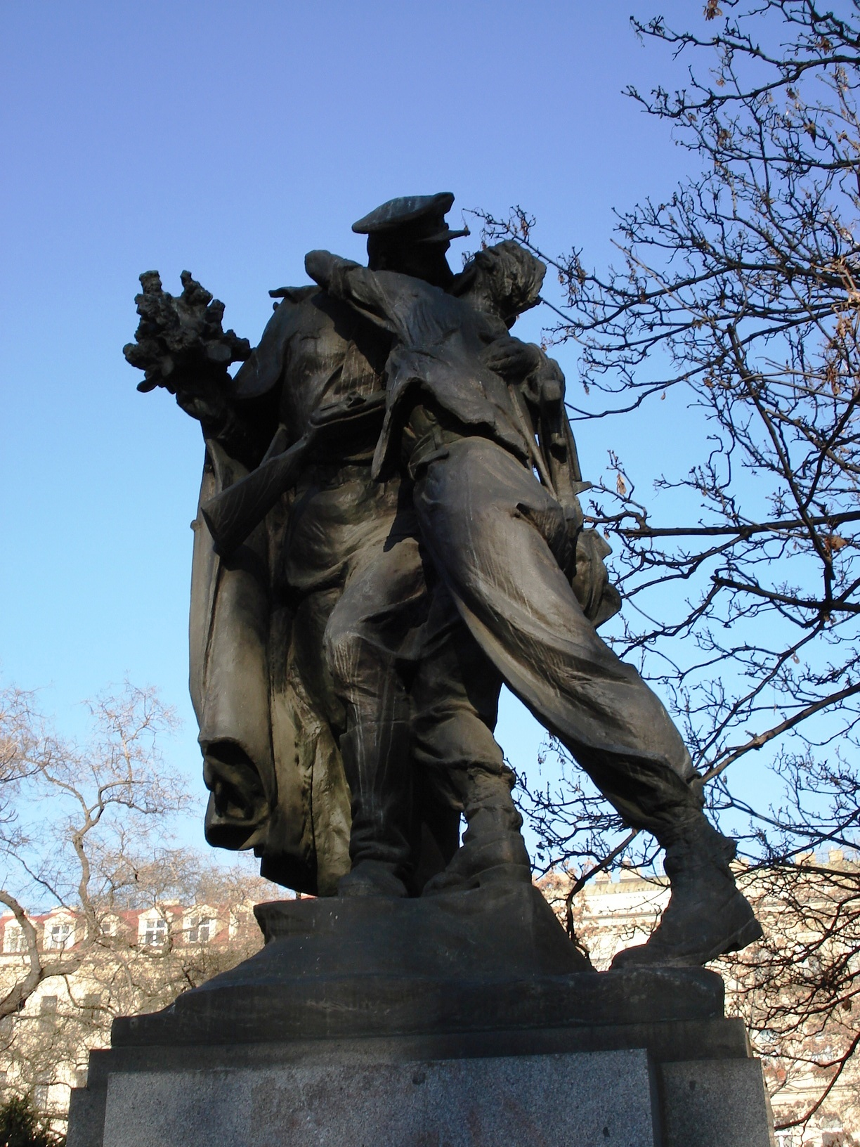 Monument to the Red Army ; a czech soldier kisses a russian one and gives him a bouquet of lilac